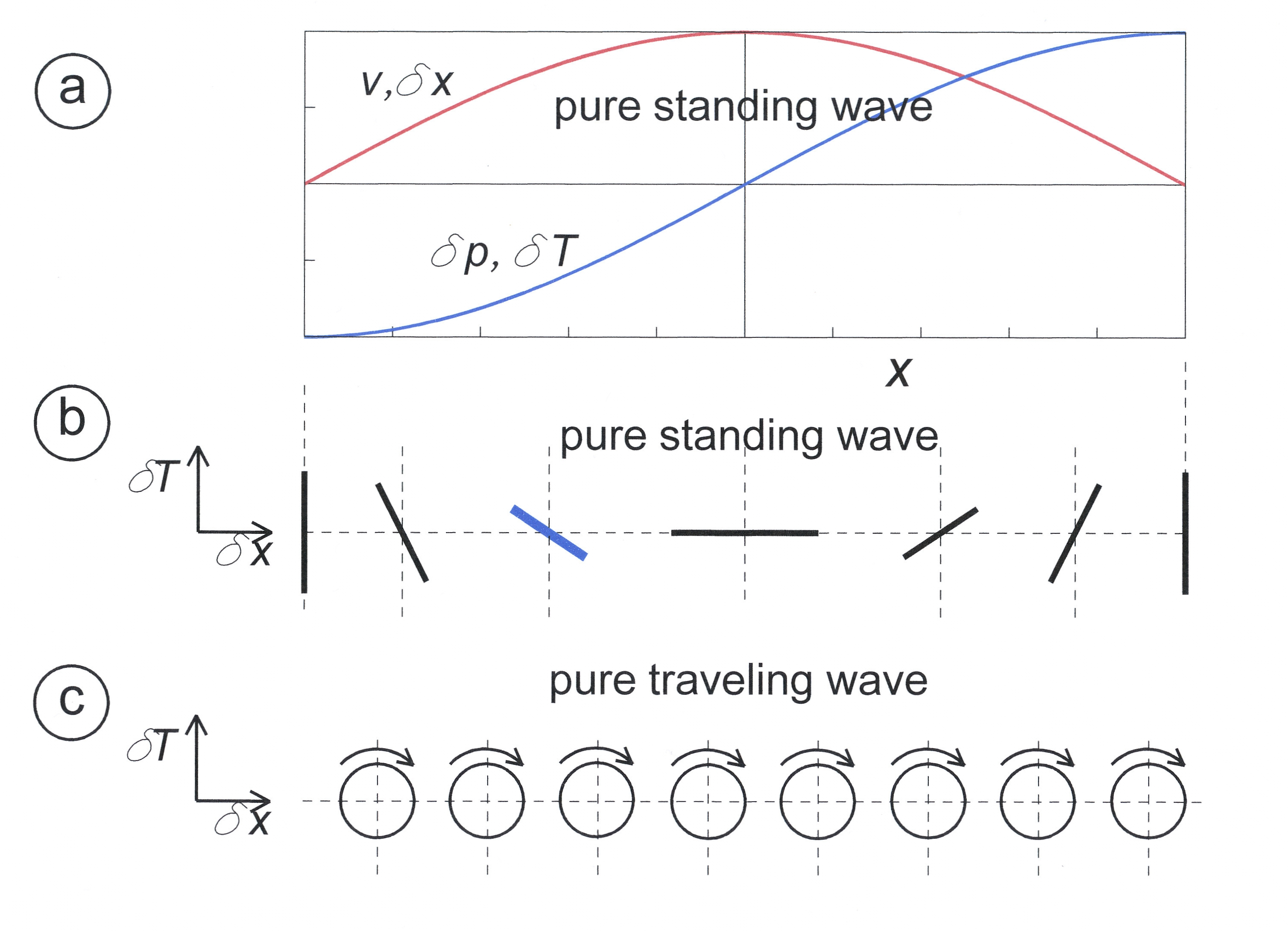 dT dX plots in standing and travelling waves